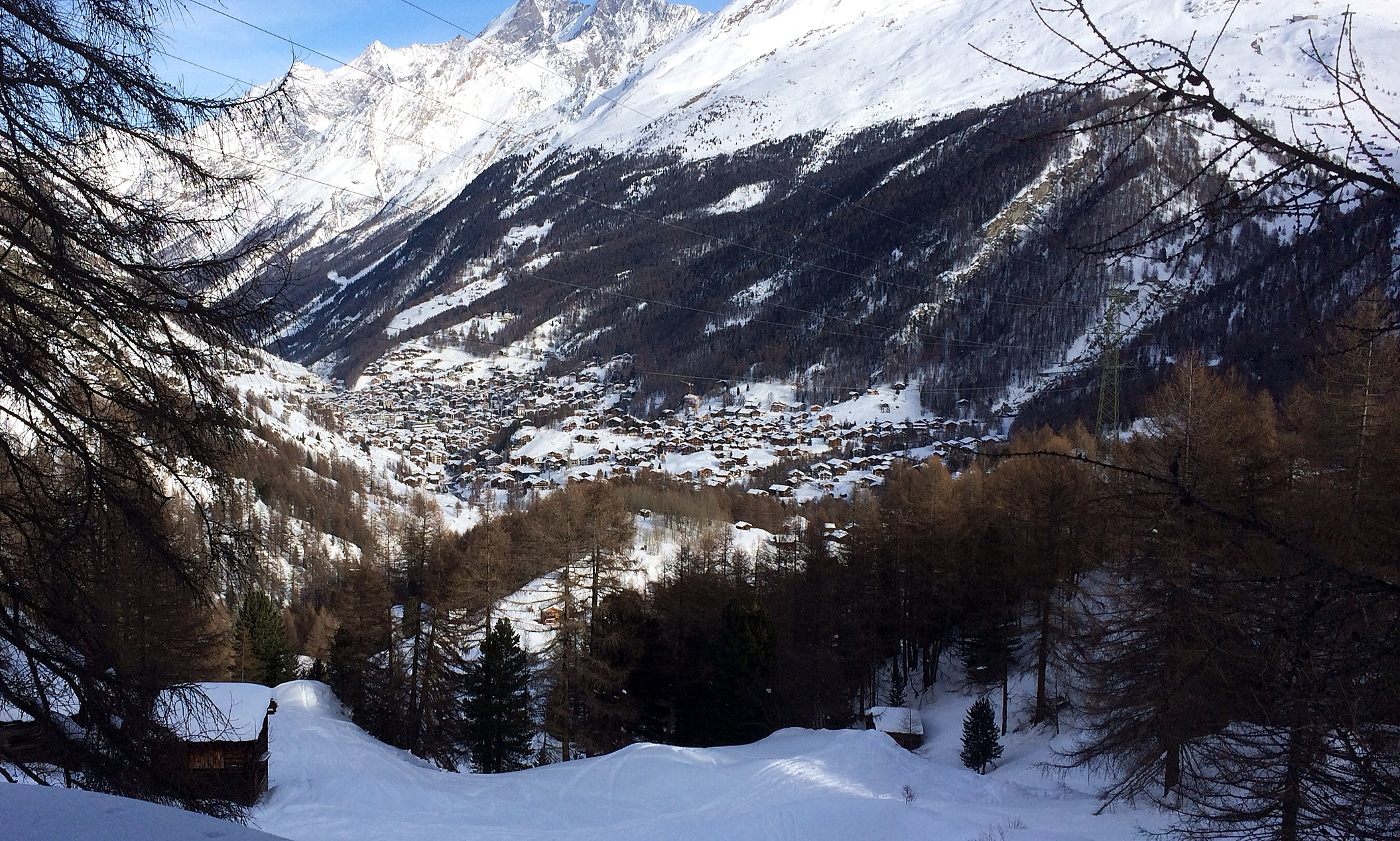 A panoramic view from Furi towards Zermatt